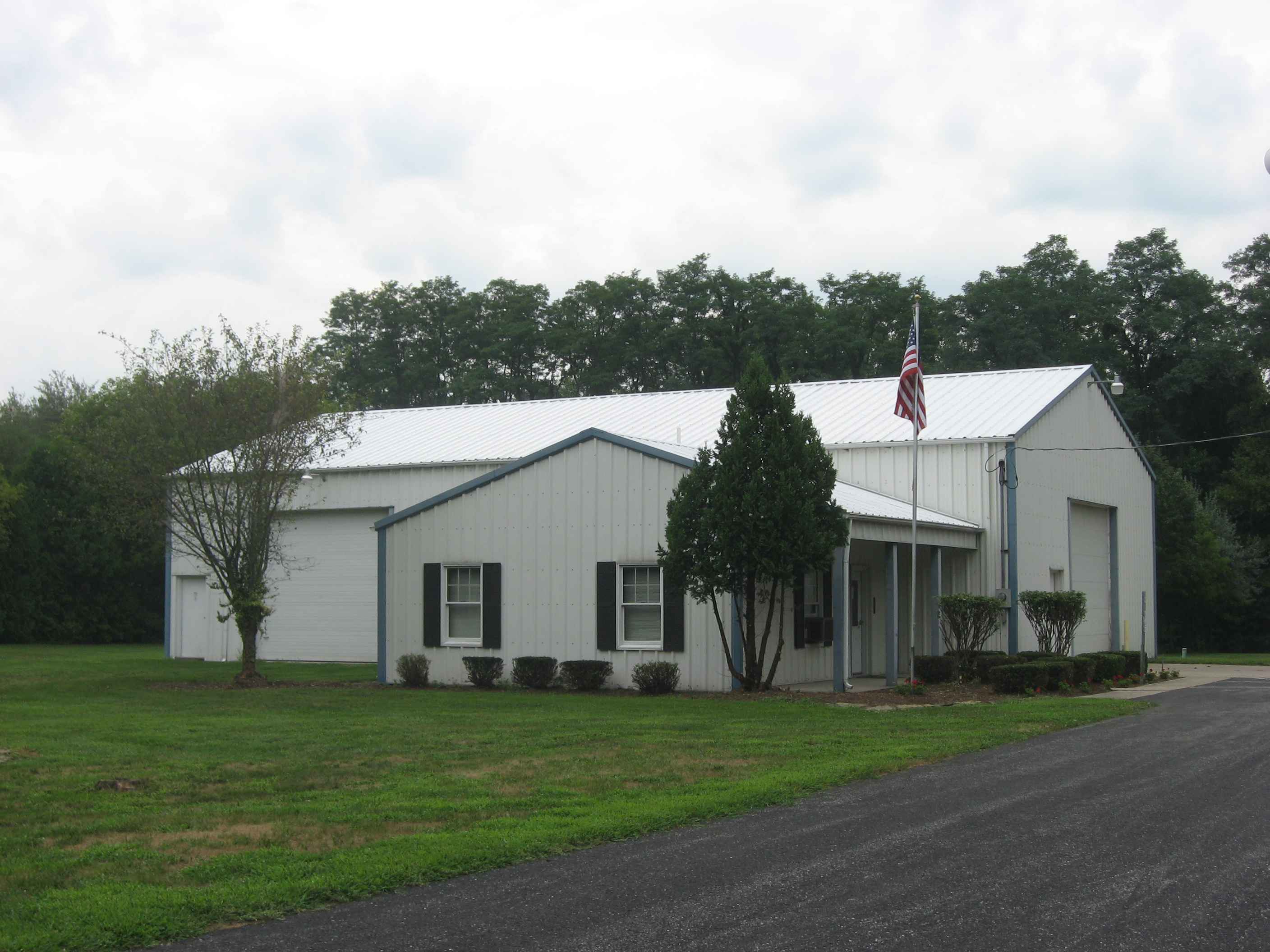 Front of the Pike Township hall in Winameg, Ohio, United States, located at 12232 County Road 10-2.